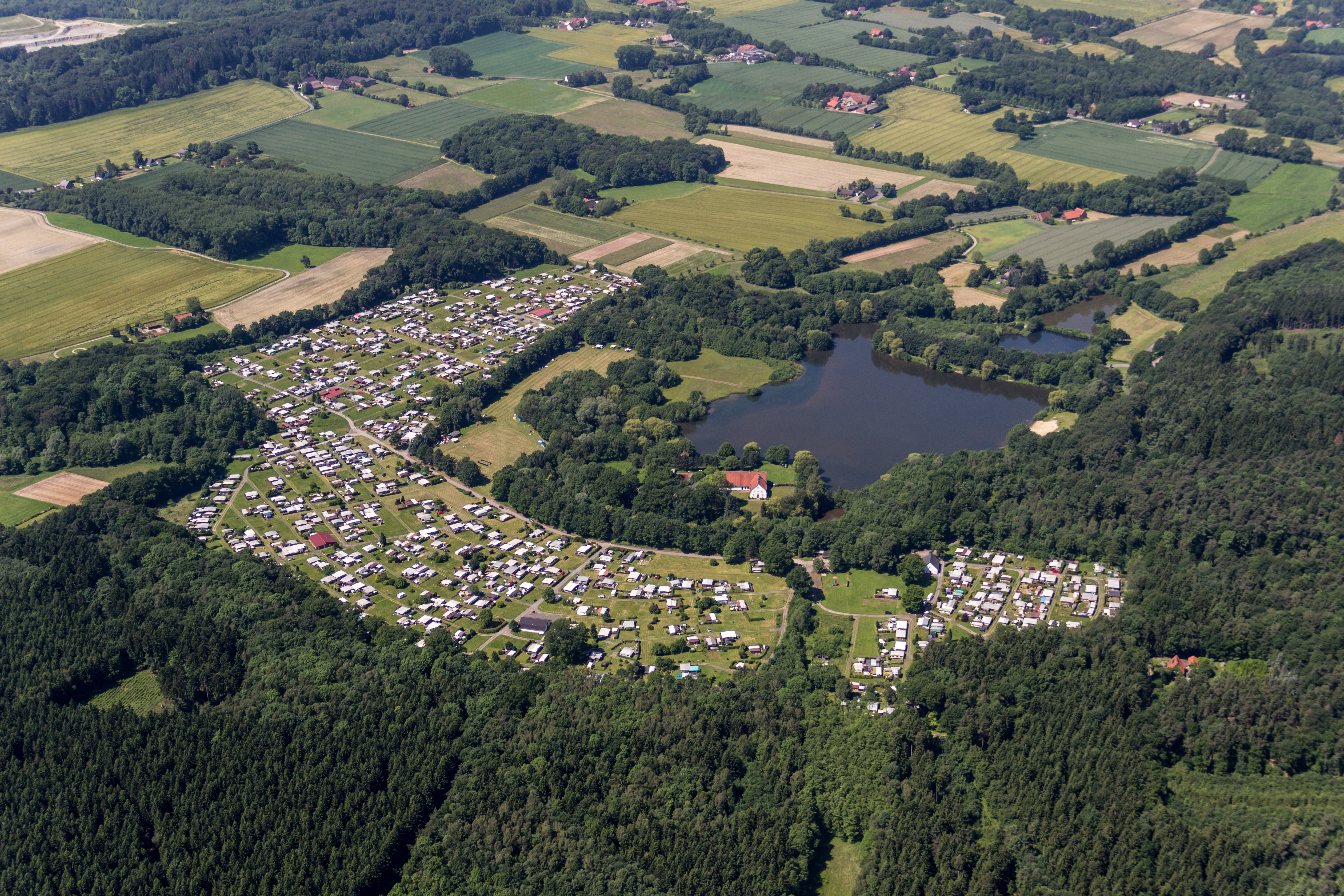 Campsite “Teutoburger Waldsee”, Hagen (am Teutoburger Wald), Lower Saxony, Germany